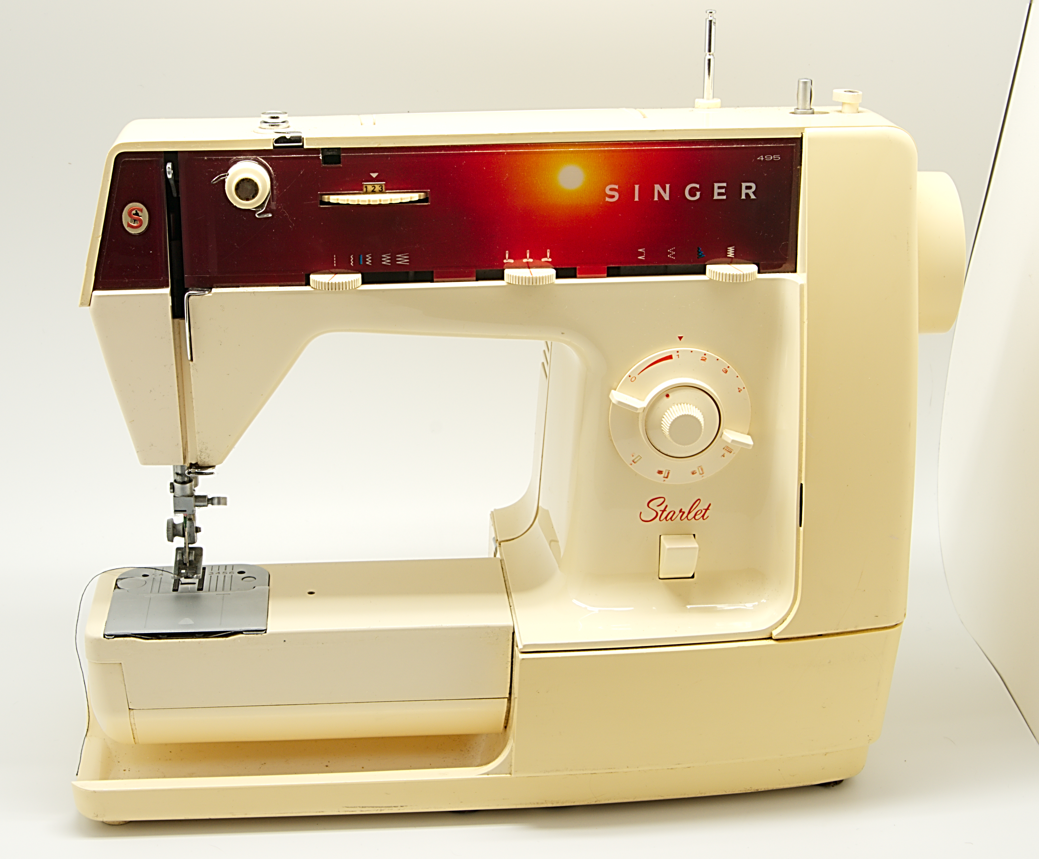 Scarlet Singer opened and set for round sewing